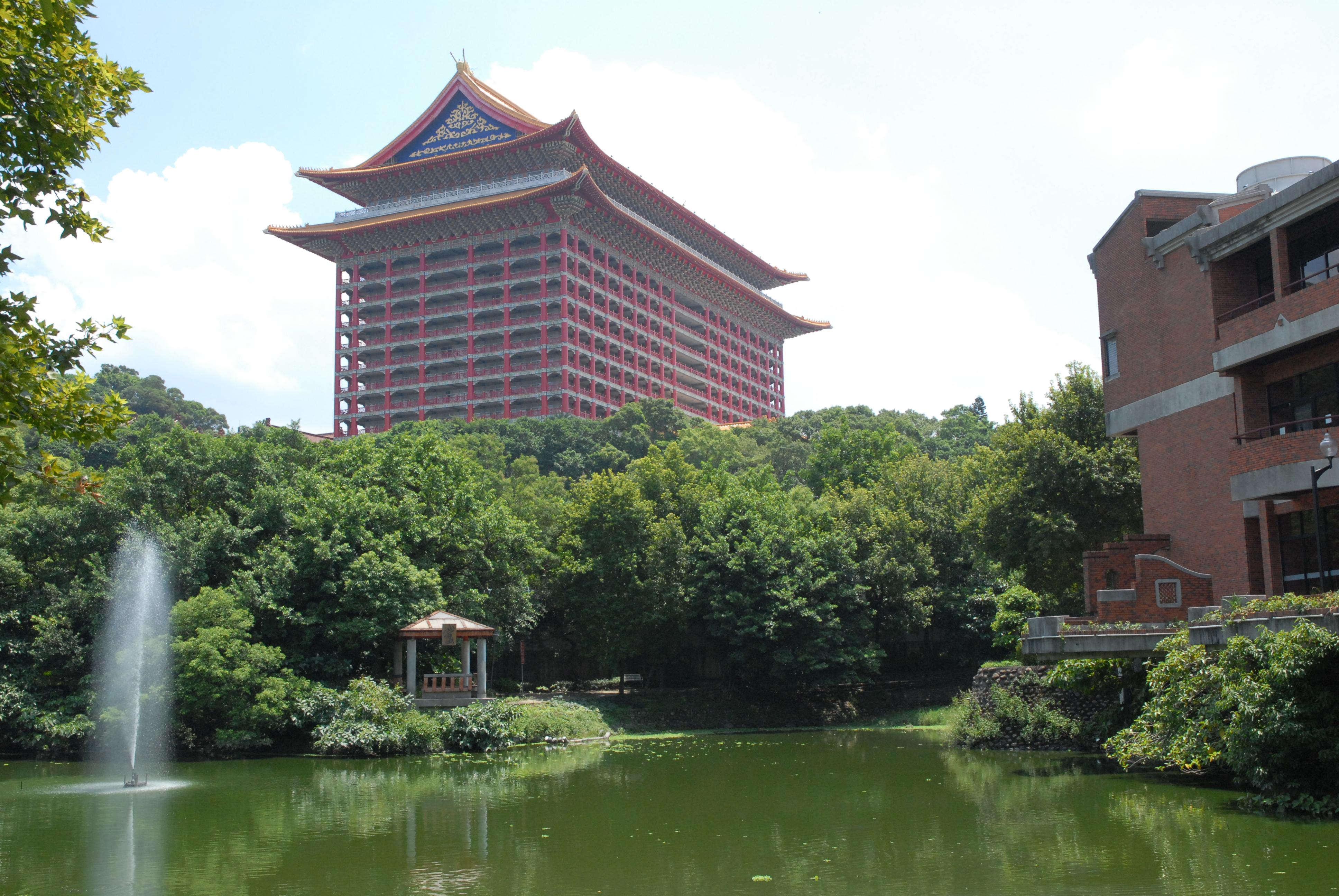 Taipei Grand Hotel seen from CTOYAC